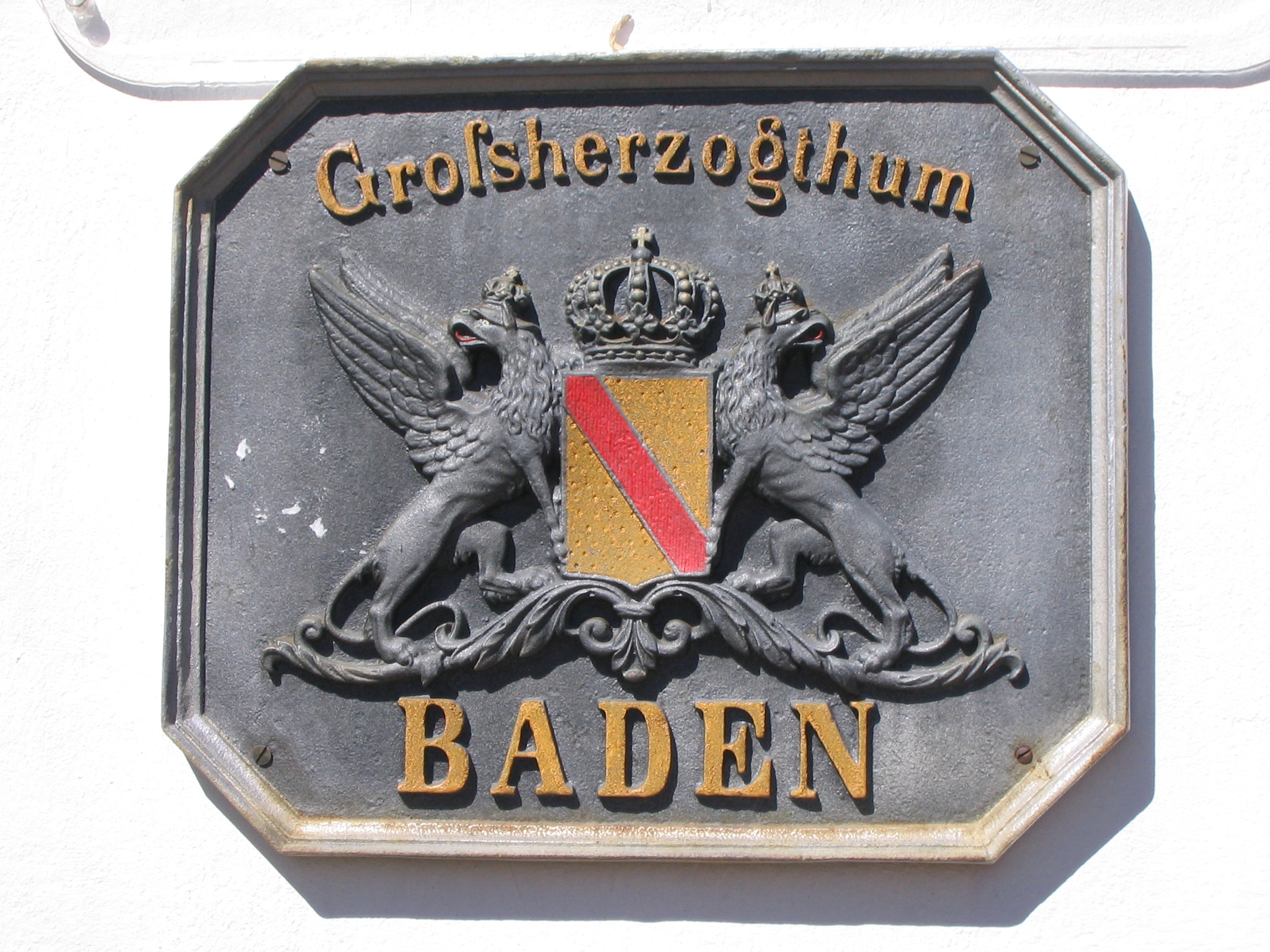 Coat of arms of Großherzogtum Baden, recorded at the town hall of Feldberg (Schwarzwald)